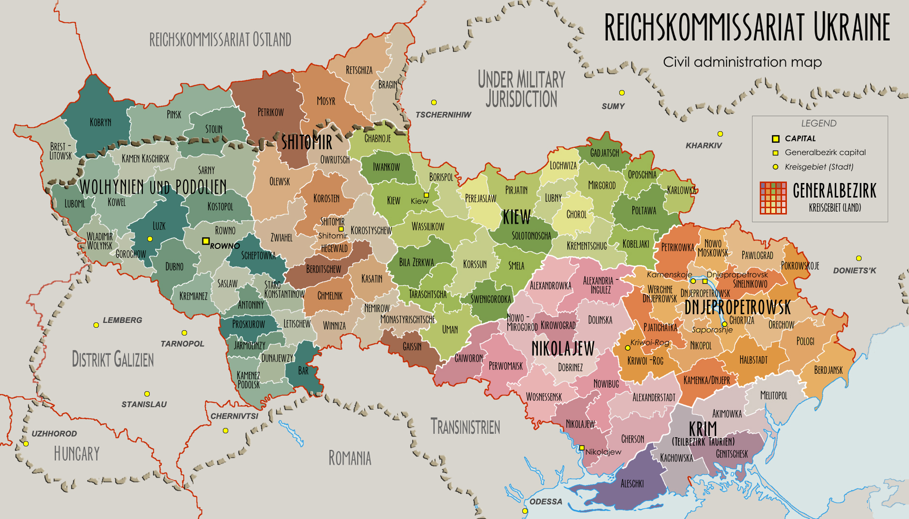 An administrative map of the Reichskommissariat Ukraine. Shows the boundaries of the Generalbezirke and Kreisgebiete as of September 1943. Distrikt Galizien added with major cities, plus outline of modern-day borders of sovereign Ukraine in order to see what part of the country constituted the actual Reichskommissariat in World War II.